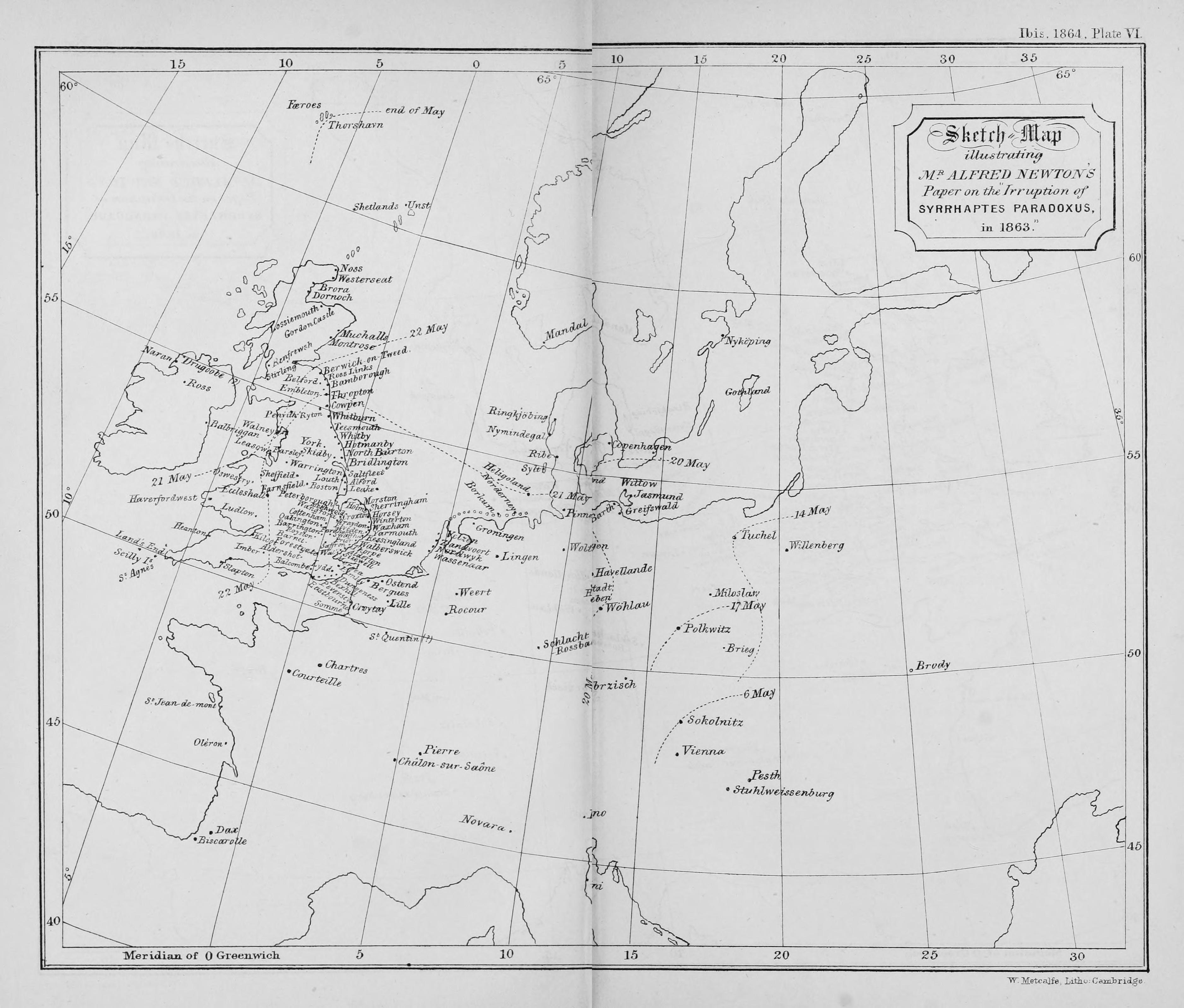 « Syrrhaptes paradoxus » = Syrrhaptes paradoxus (Pallas's Sandgrouse) - map of the irruption of the species in 1863